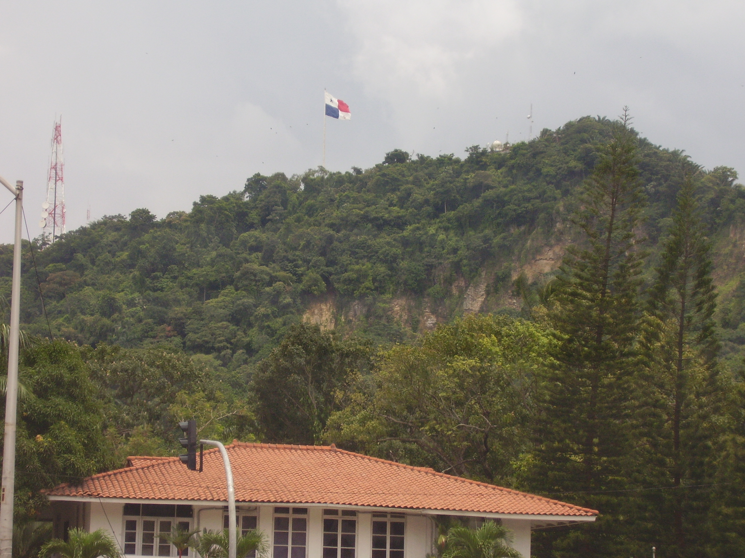 Flag of Panama on Ancon Hill seen from Balboa